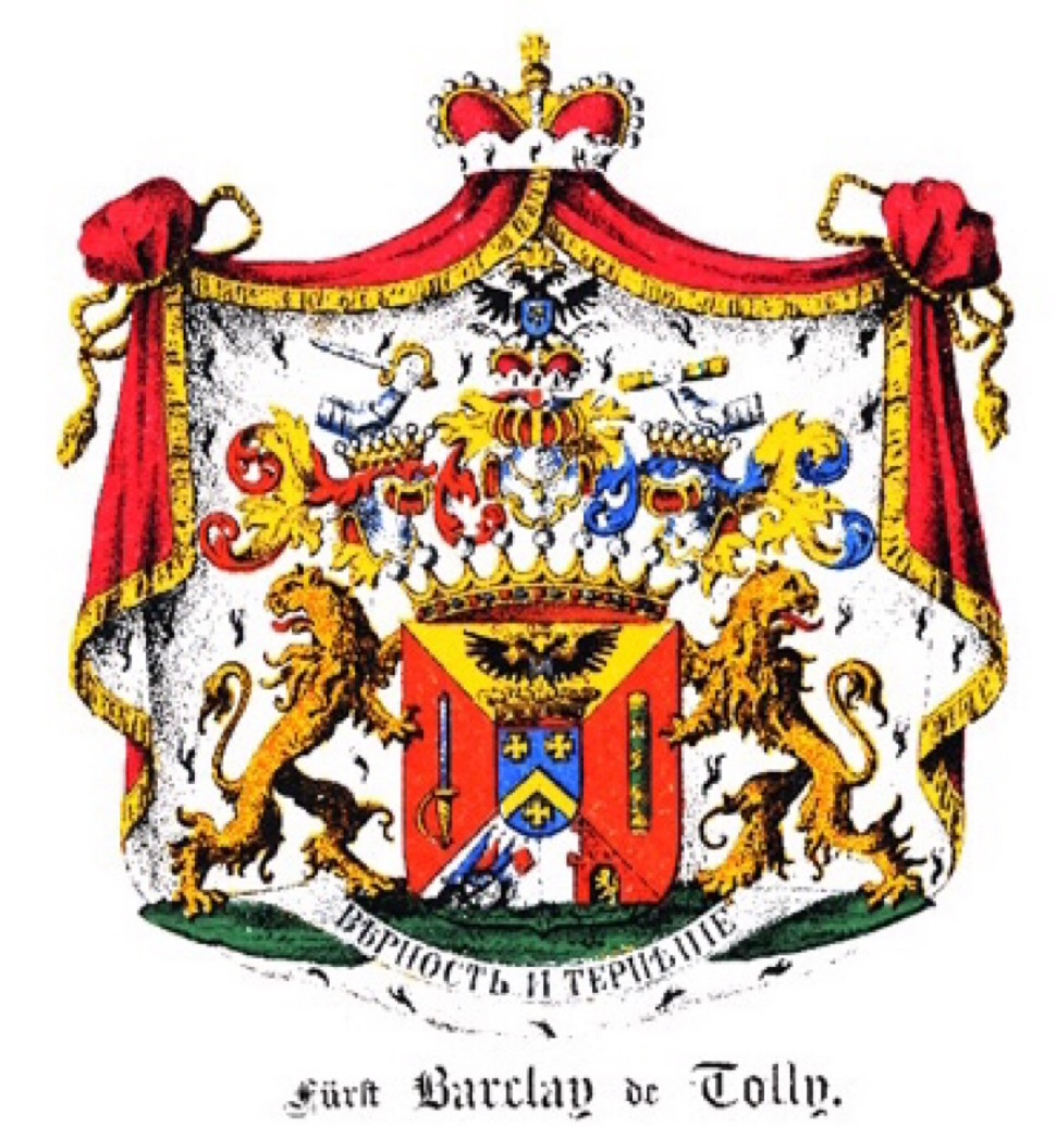 Barclay de Tolly armorial achievement